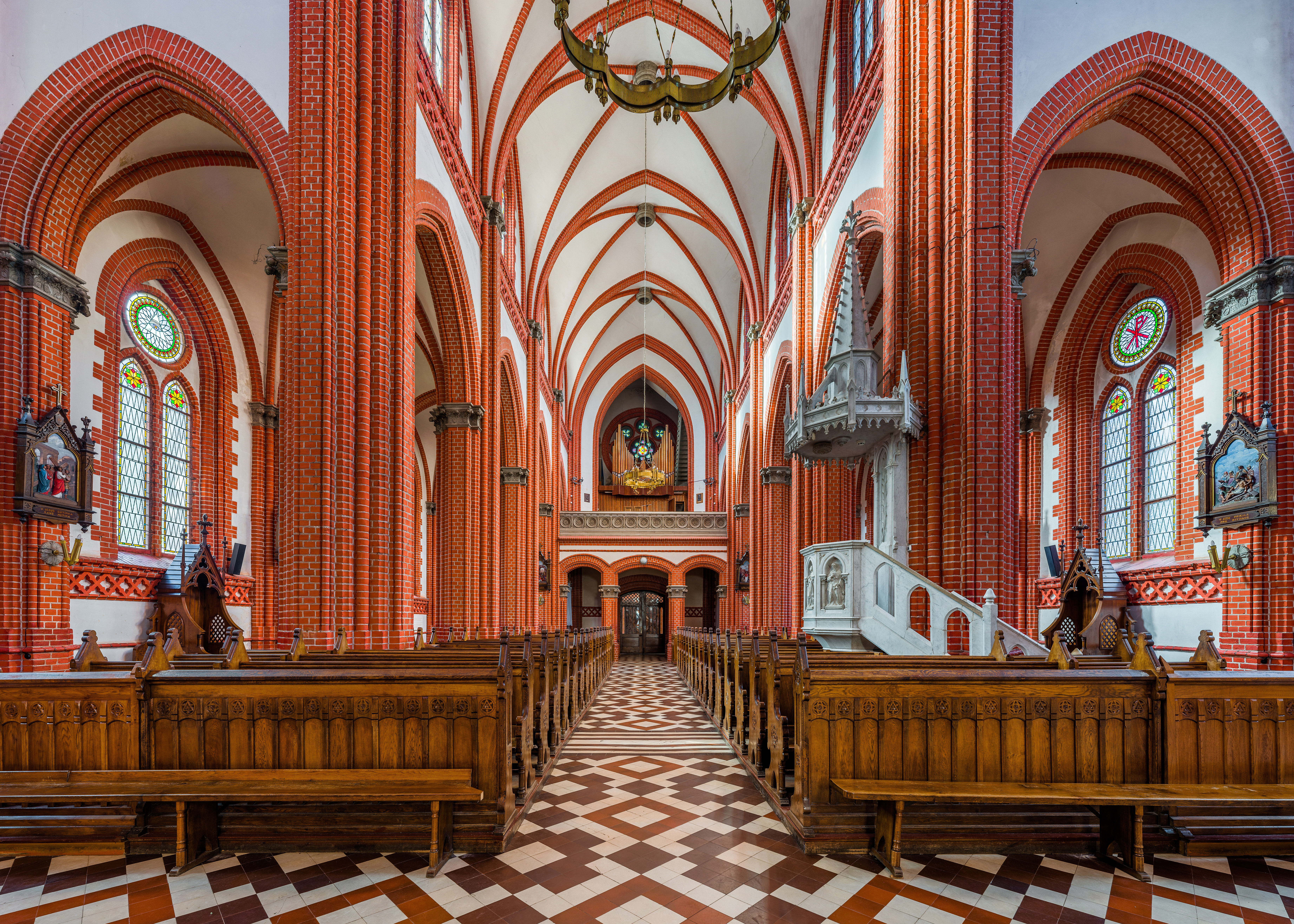 The interior of the church of Saint Marie, Palanga, Lithuania